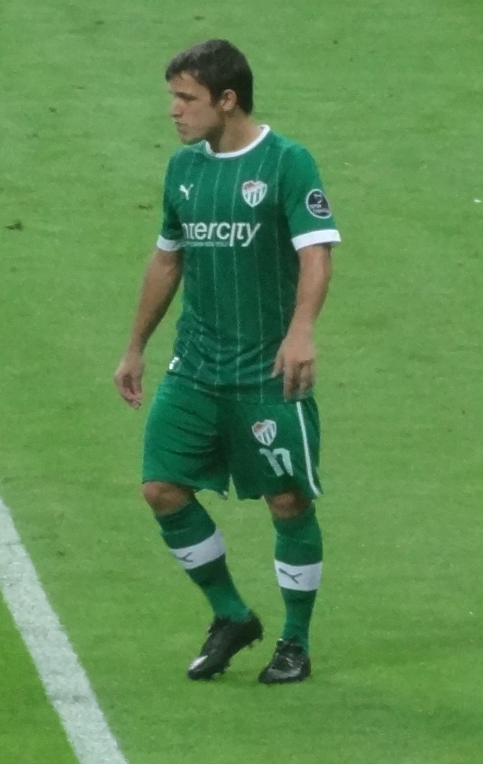 Pablo Martin Batalla vs GS